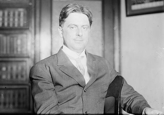 William Stiles Bennet (1870 - 1962),a U.S. Representative from New York